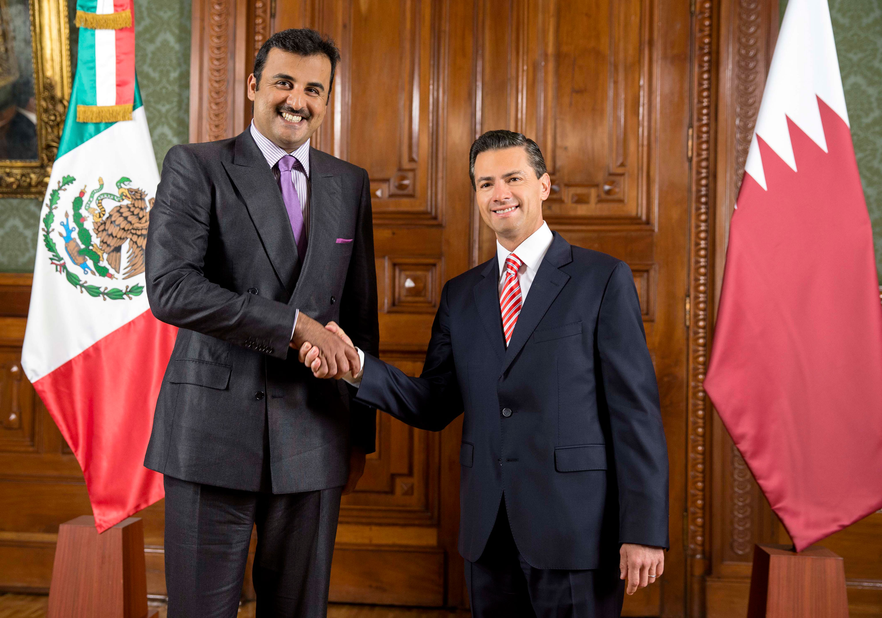 Sheikh Tamim bin Hamad Al Thani meets with Enrique Peña Nieto, November 2015